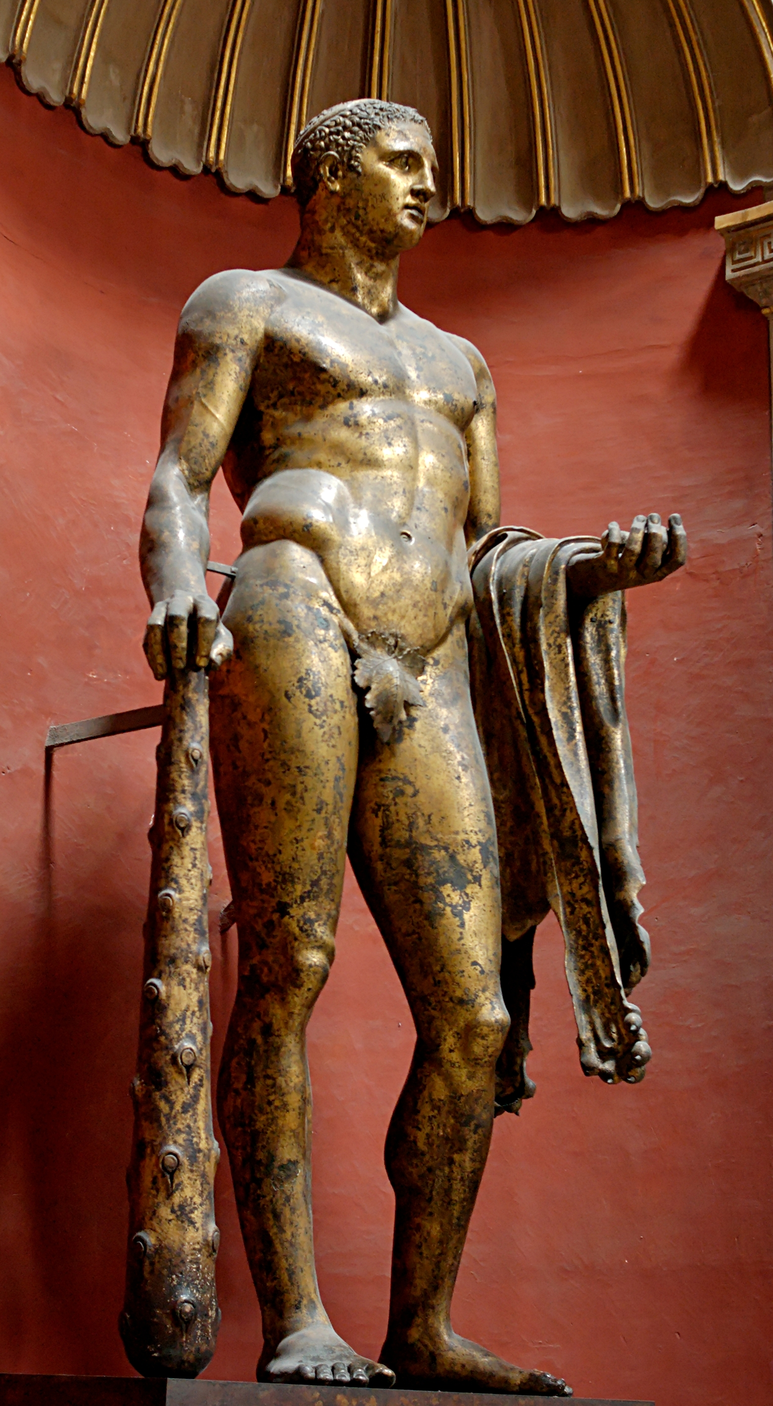 Heracles with club, lion skin and golden apples. The statue was found neatly buried under tiles with the inscription “FCS” (“fulgor conditum summanium”), indicating that it was struck by lightning then buried on the spot. Gilt bronze, Roman artwork of the 2nd century CE.